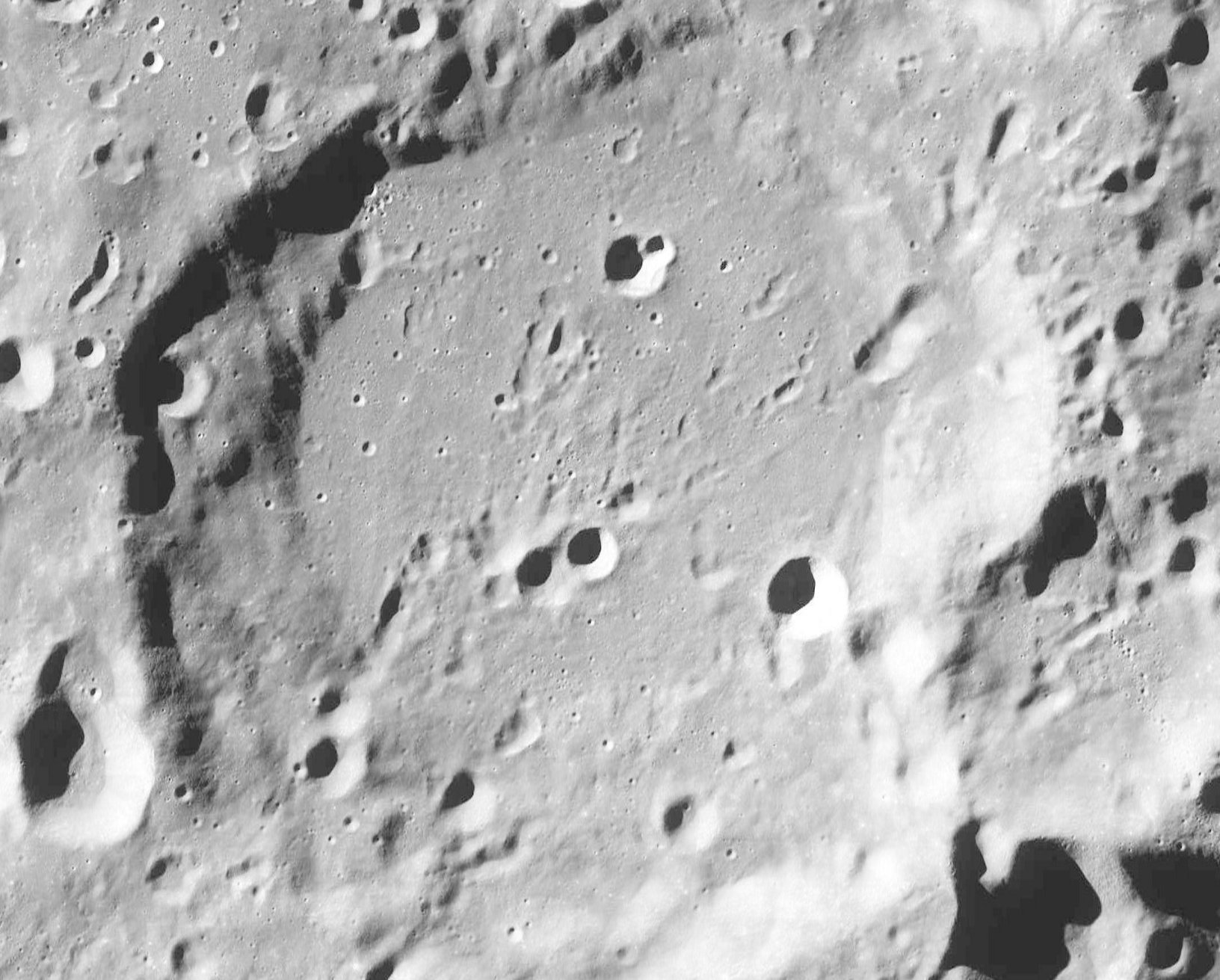 Crater Pingré (detail of LRO - WAC global moon mosaic; Mercator projection)